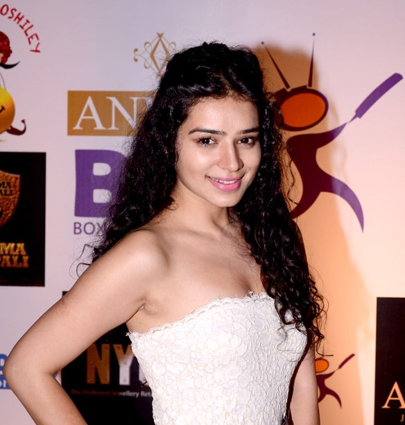 Kandpal at the success party of Box Cricket League